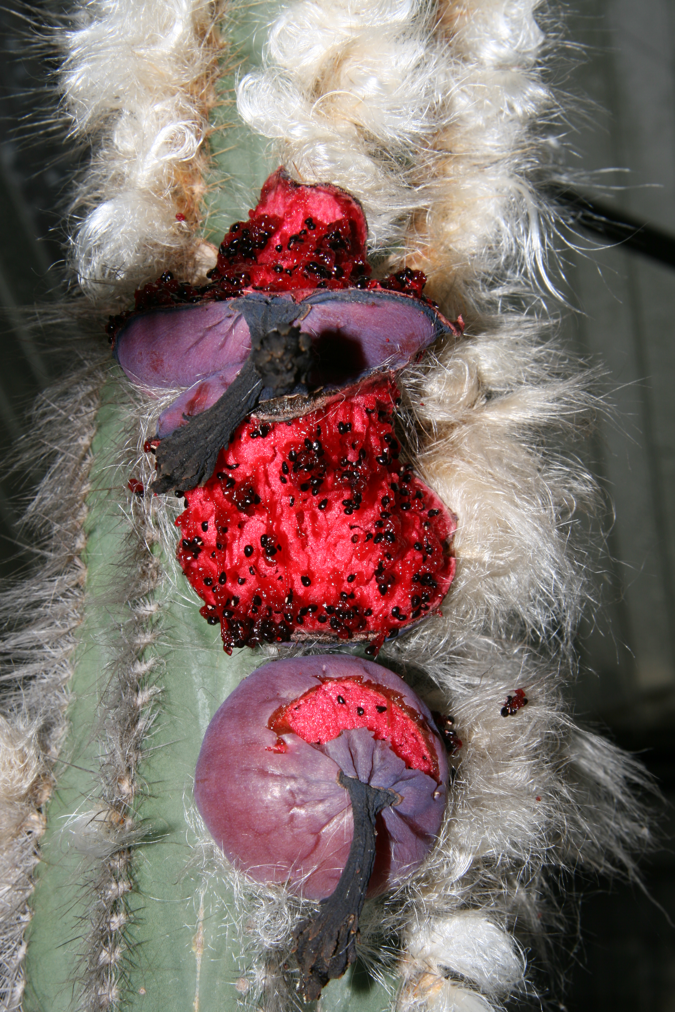 ripe fruits, plant fromW Bahia, Brasil